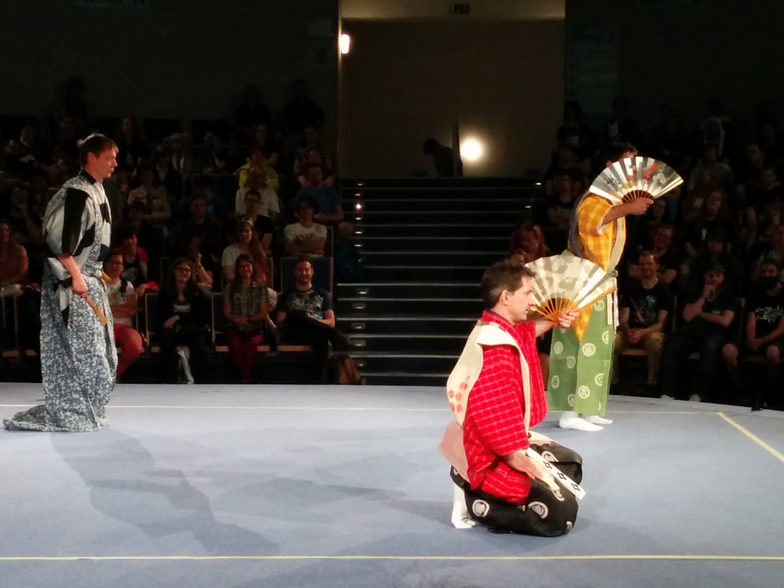 "Malé divadlo kjógenu", a theatre company from Brno in their kyogen show "Hlas za dveřmi"